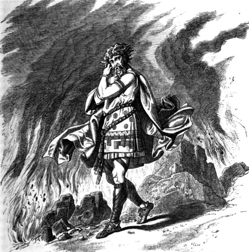 Loke. Loki. Apparently walking by a fire or a lava field or some such.